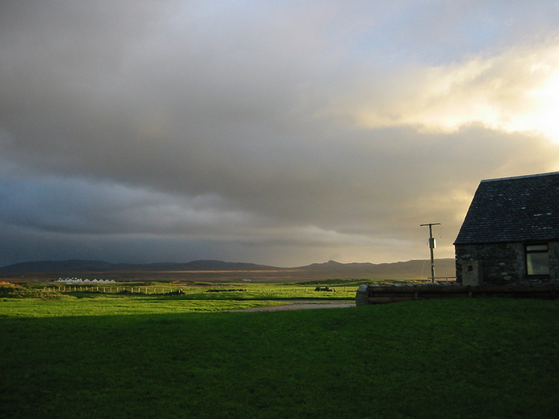 A view of the central uplands of the Scottish island of Islay. Taken from Kintra, looking northeast.